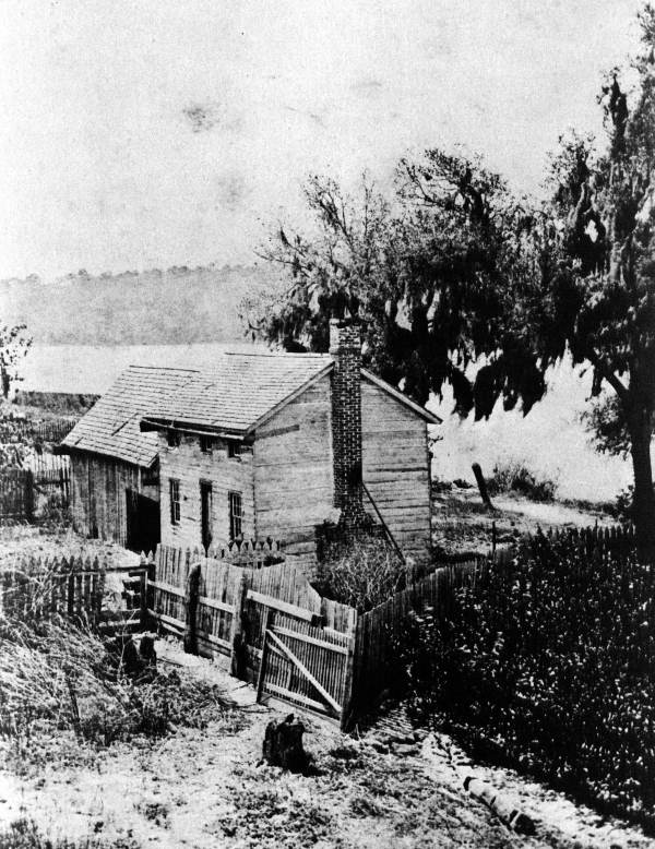 Home beside the river - Arlington, Florida.